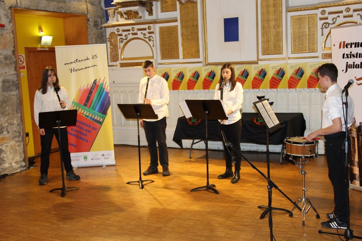 2017, XII Hernaniko Txistulari gazteen Txapelketa, taldean